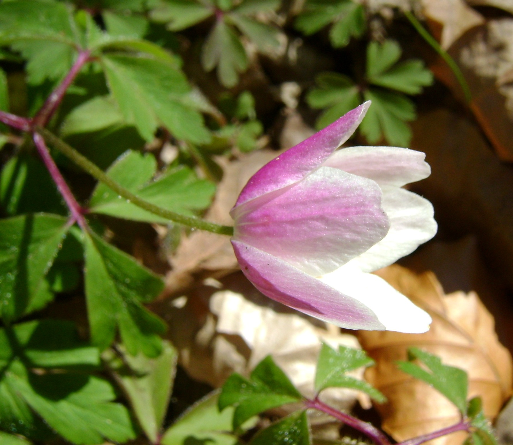 Flower of Anemone nemorosa with reddish sepals and petals